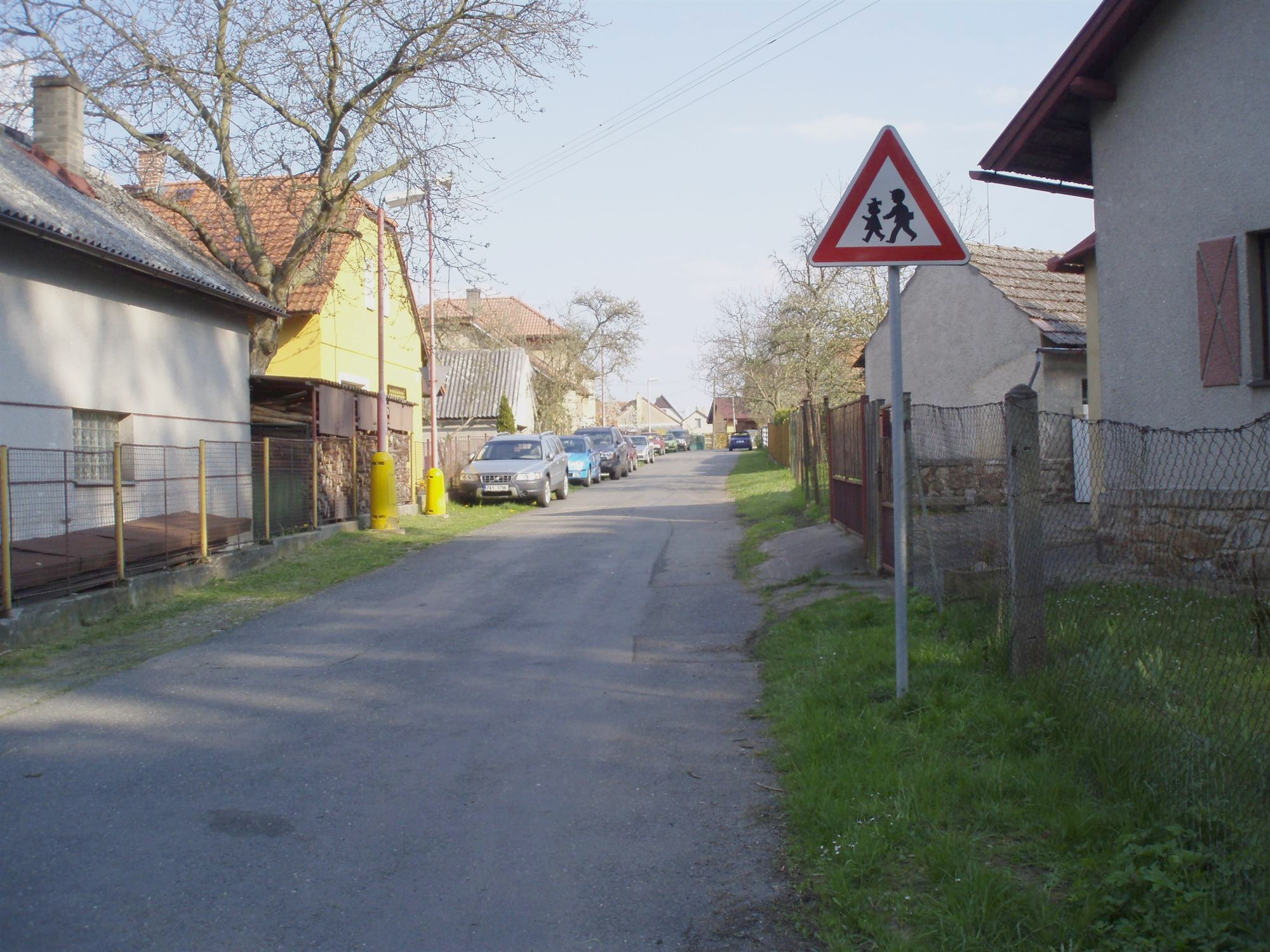 Street in village Felbabka near Jince